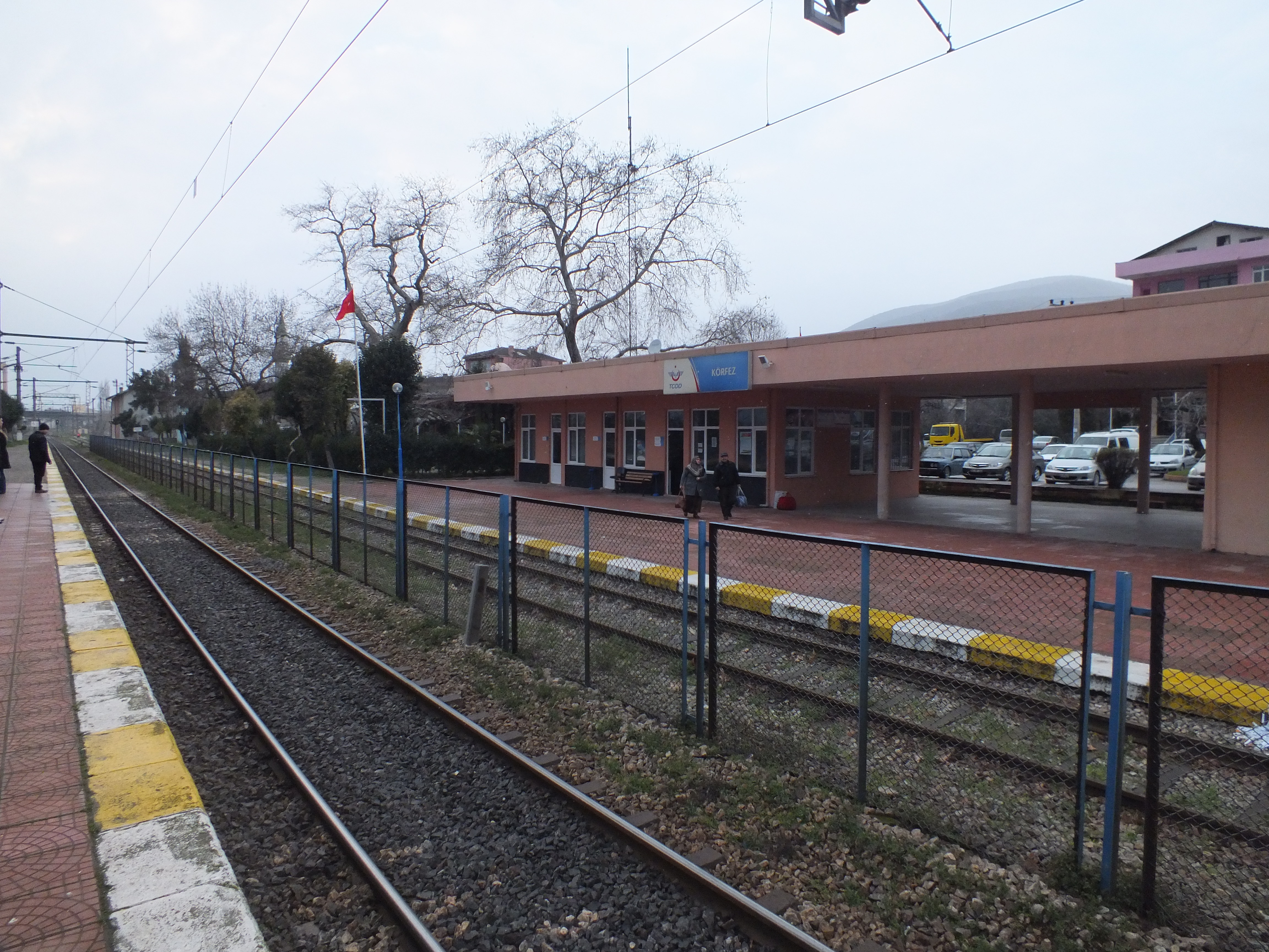 Korfez railway station on a cold cloudy day.